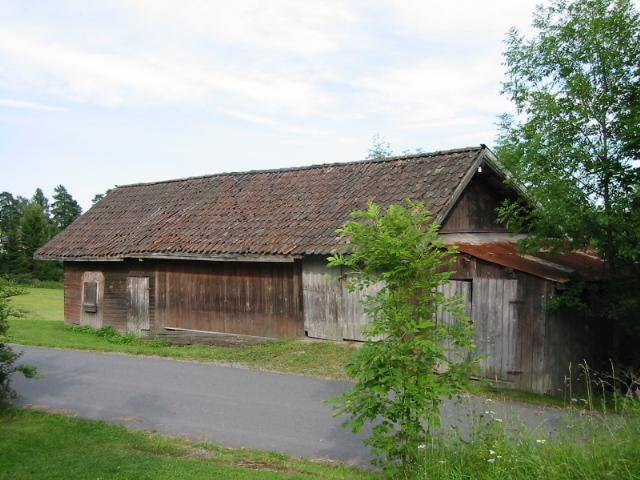 The barn of the tenant farm Eidbråten in Asker in Norway